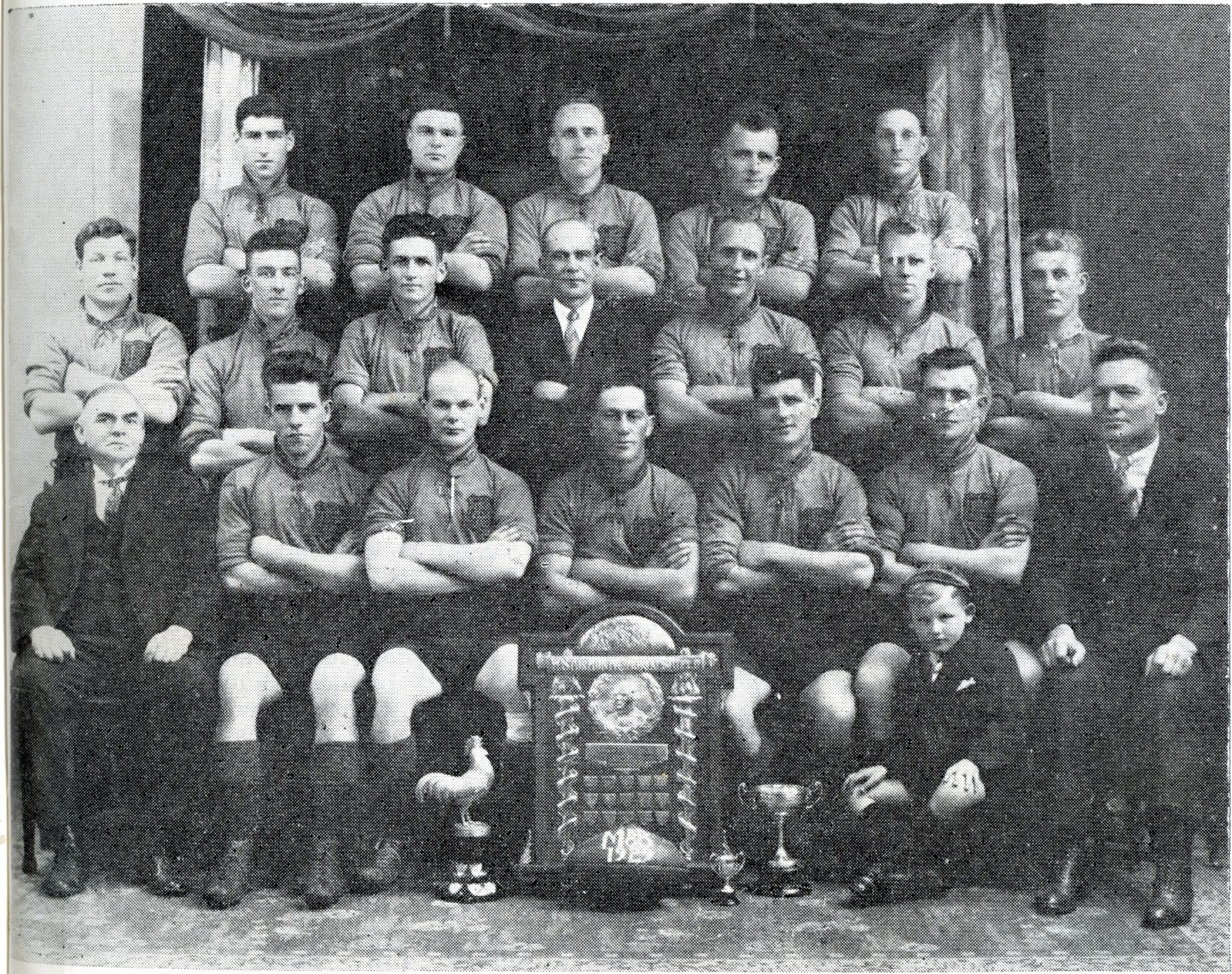 Senior team 1929 (Winners Roupe Rooster Stormont Shield and Thistle Cup)